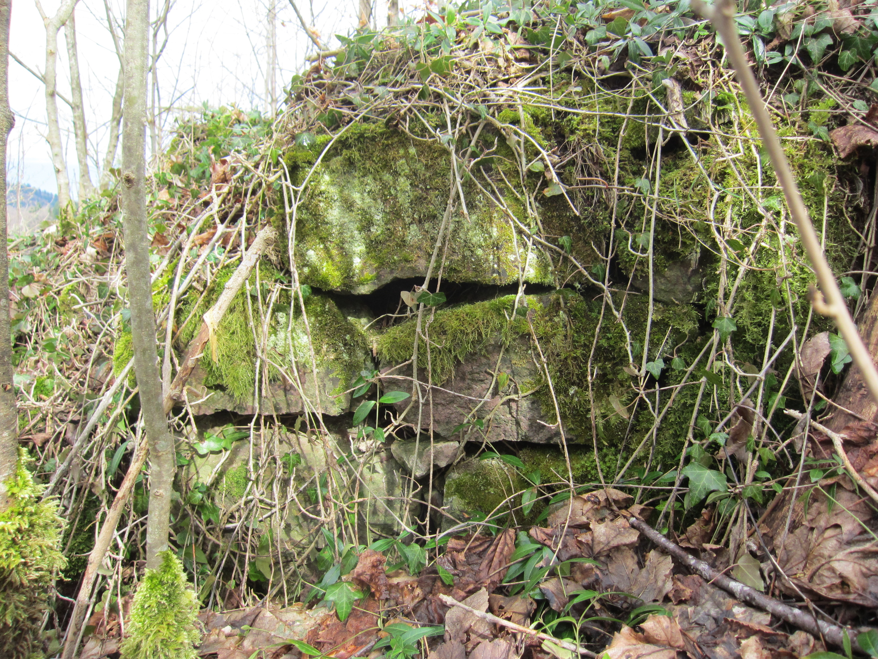 Alt-Geroldseck Castle, further shield wall remains (looking towards north)